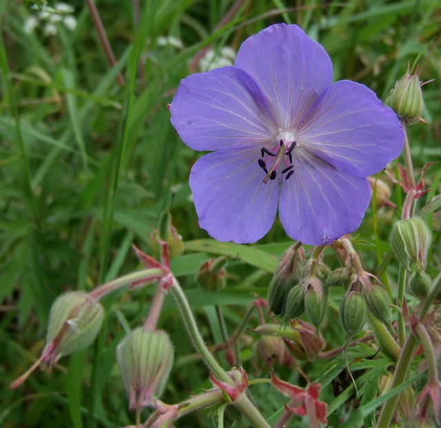 Meadow Cranesbill, Auchmithie The flowers provide vivid points of blue amongst the long grass either side of the path.